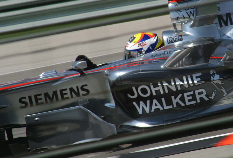 Juan Pablo Montoya driving for McLaren at the 2006 United States Grand Prix.